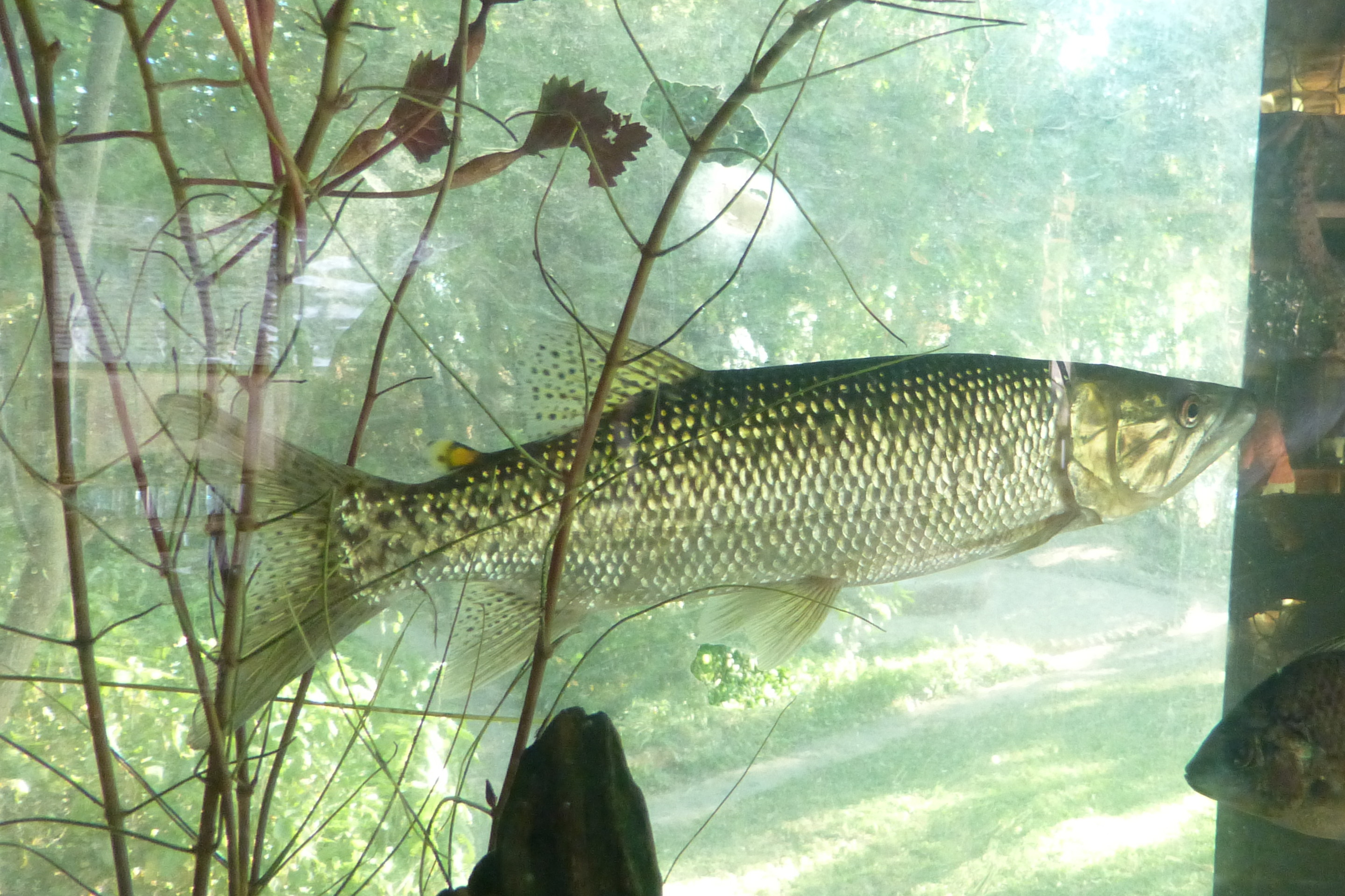 Hepsetus cuvieri, in an Aquarium of Guma Lagoon Camp in the Okavango Delta